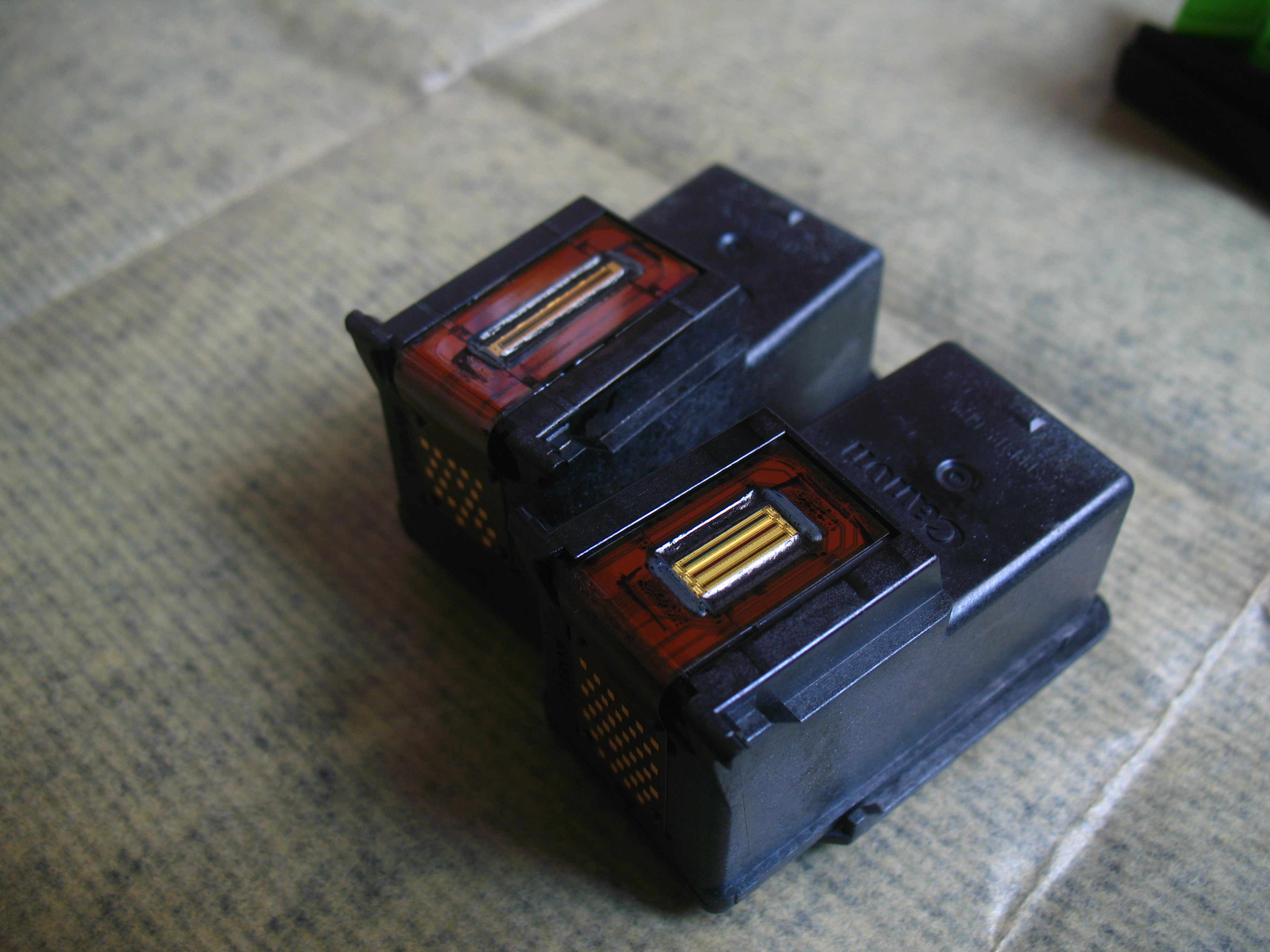 The nozzle of Canon PG-810 and CL-811 ink cartridges. 中文（香港）: Canon PG-810及CL-811的墨盒噴咀。